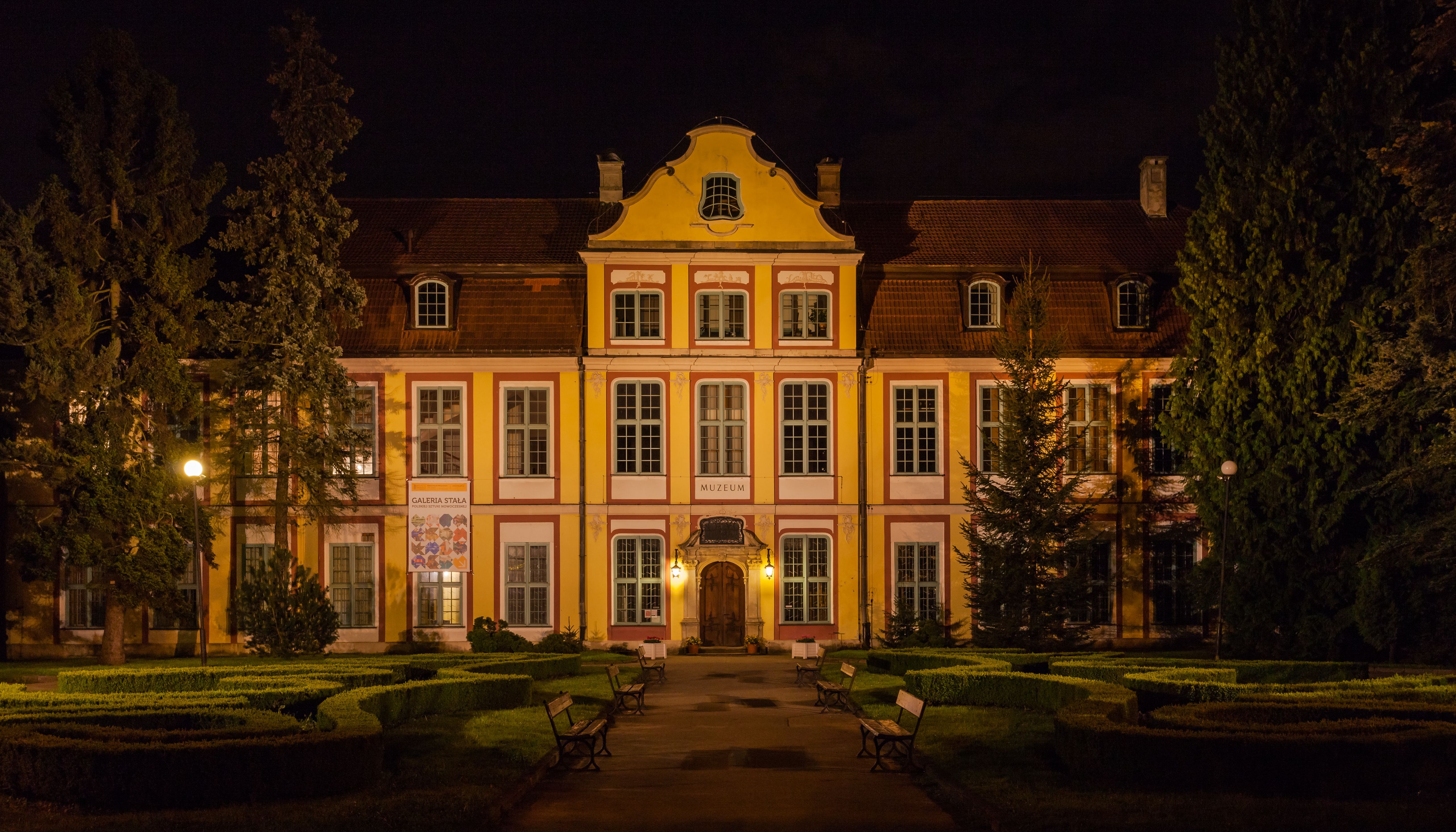 Oliwa Palace, Gdańsk, Poland